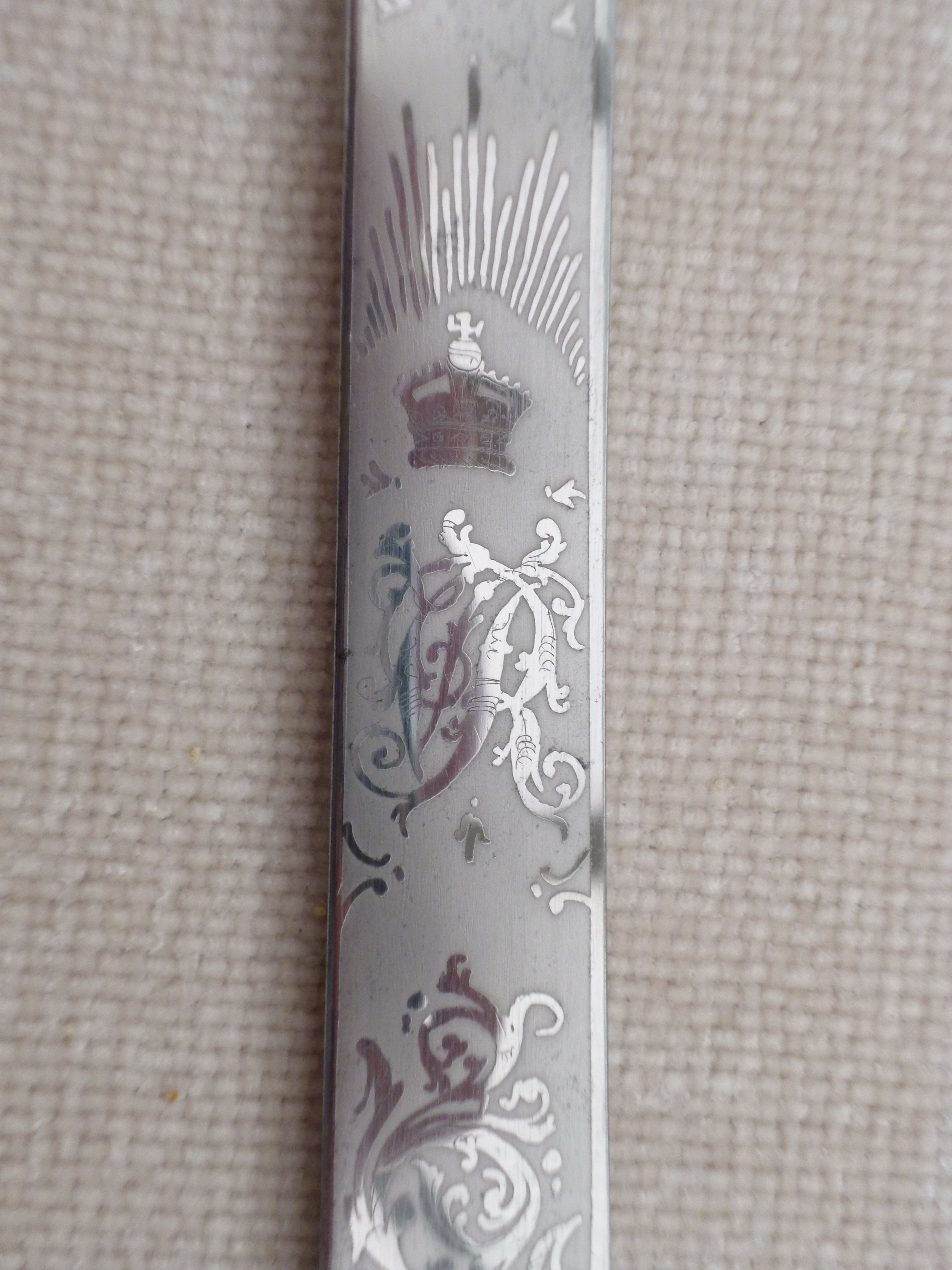 Detail of frost-etched (acid-etched) blade decoration of a British Pattern 1831 sabre for the rank of major general and above. A sabre of mameluke type with ivory grips and brass scabbard. This particular sword is mid-Victorian and was retailed by J.B. Johnstone of London and Dublin, who were tailors and military outfitters.